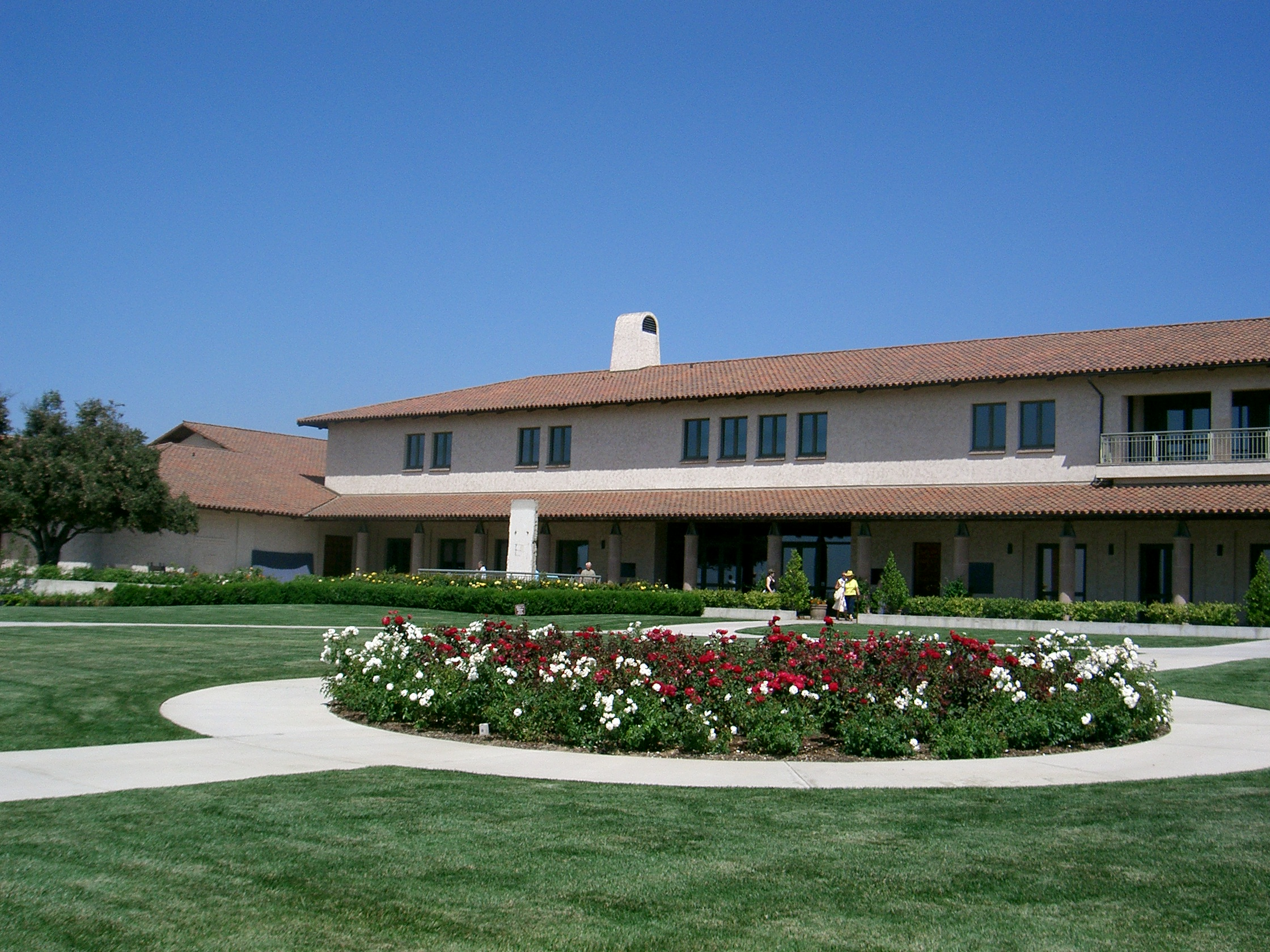 Garden of the Ronald Reagan Presidential Library